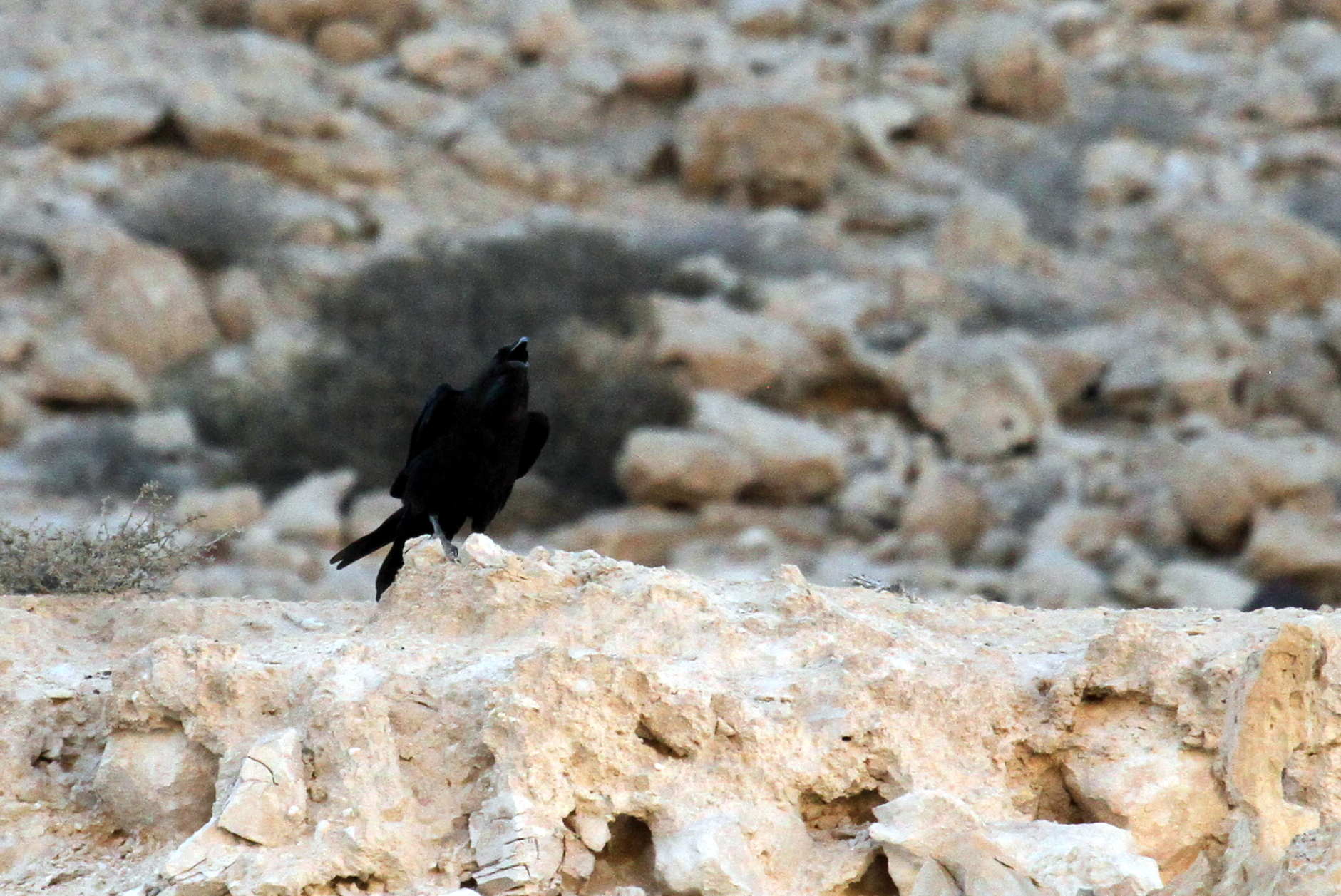 Brown-necked Raven Corvus ruficollis, Israel